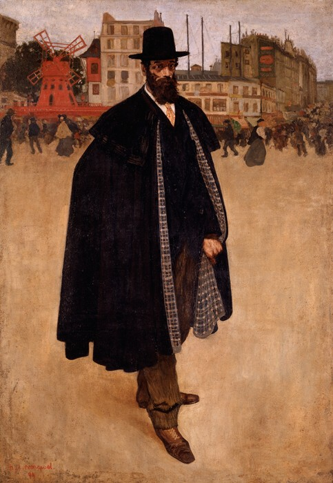 De Spanjaard in Parijs